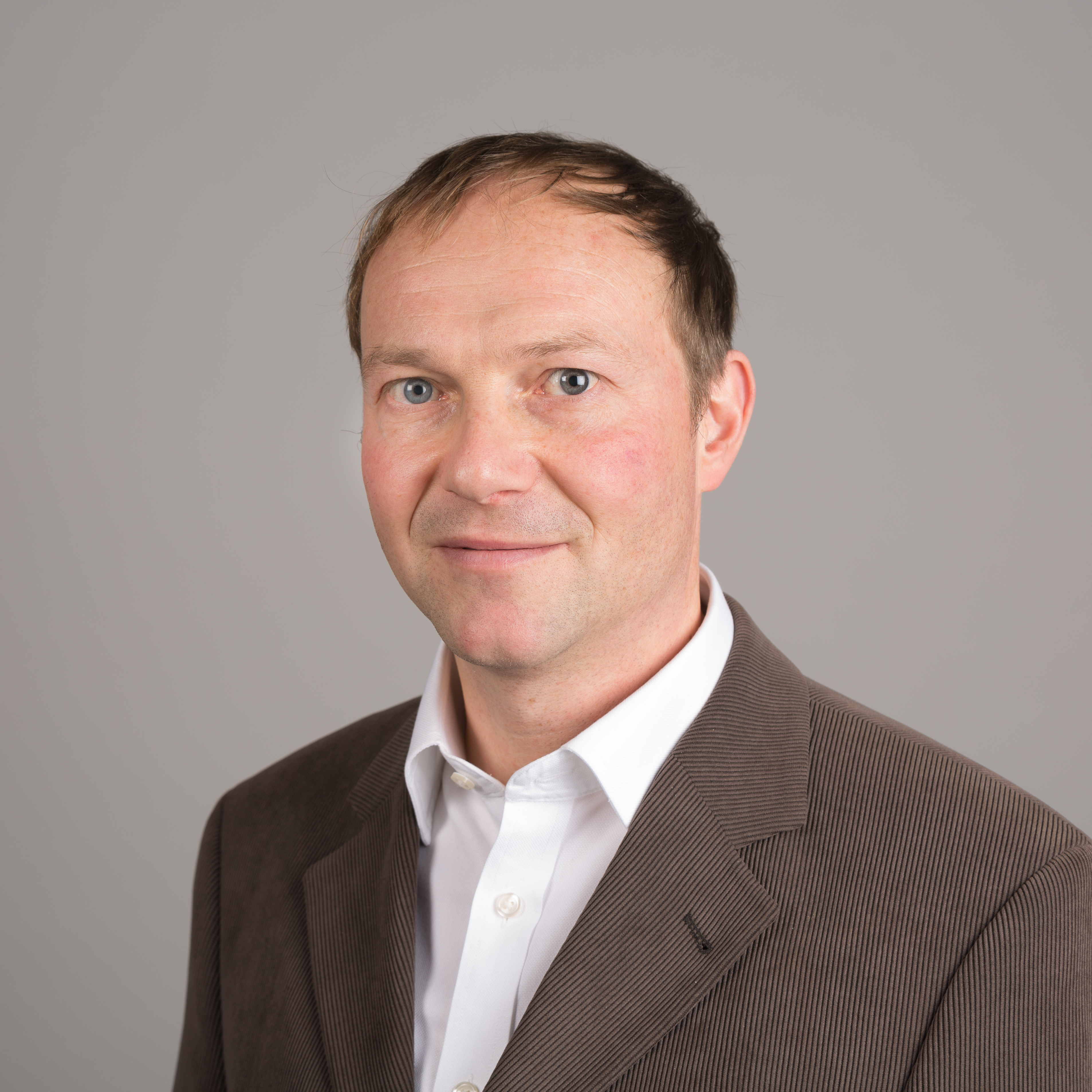 Wolfram Günther, Green Party, Member of the Parliament of the Free State of Saxony